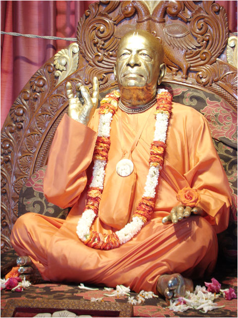 Srila Prabhupada at ISKCON Bangalore